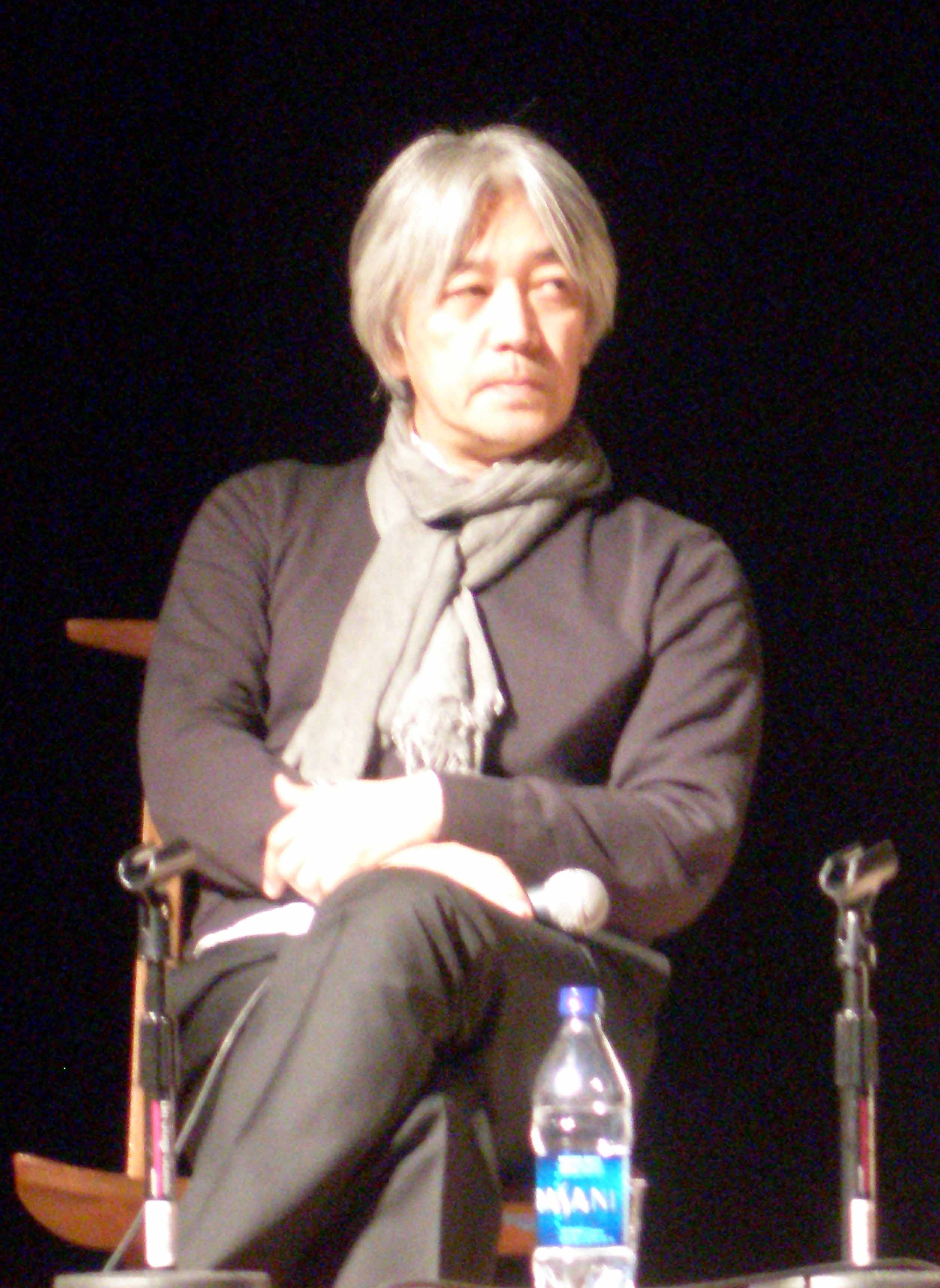 Japan Society Panel on Art & Nature - 03/23/2010